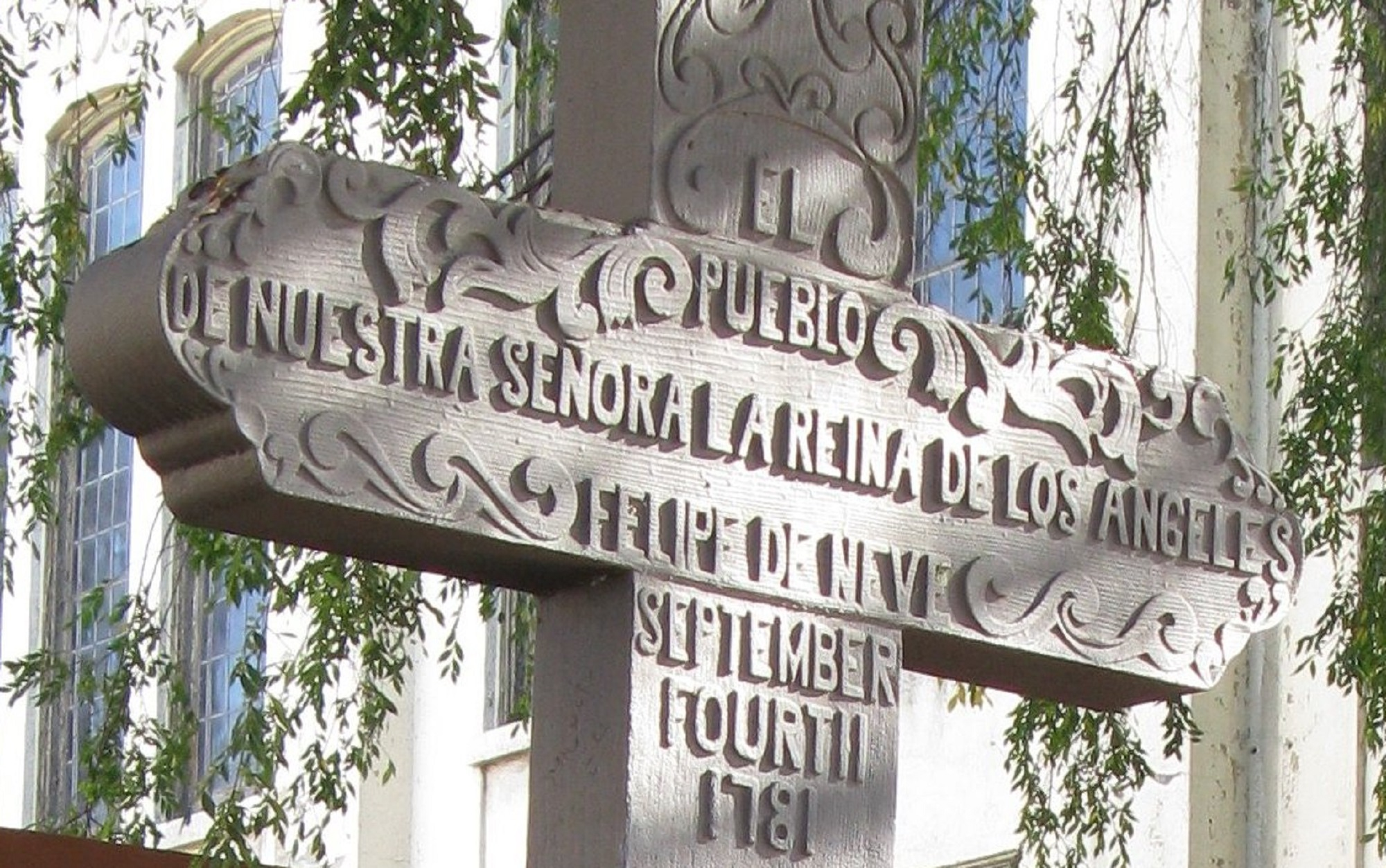 Inscription on historical monument, regarding the founding of Spanish colonial Pueblo de Los Ángeles in 1781: "El PUEBLO DE NUESTRA SENORA LA REINA DE LOS ANGELES" "FELIPE DE NEVE" "SEPTEMBER FOURTH 1781". Located at the Nuestra Señora Reina de los Angeles church (Our Lady Queen of the Angels mission asistencia), in the Los Angeles Plaza Historic District, Downtown Los Angeles.